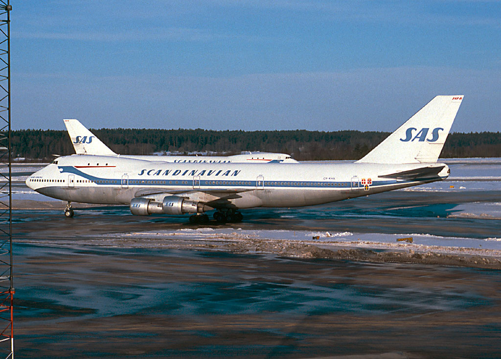 Two Scandinavian Airlines System (SAS) Boeing 747-283B, OY-KHA Ivar Viking and SE-DDL Huge Viking, at Stockholm-Arlanda Airport